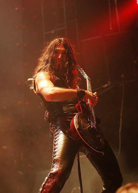 WASP' concert at Moscow, Russia (Doug Blair)